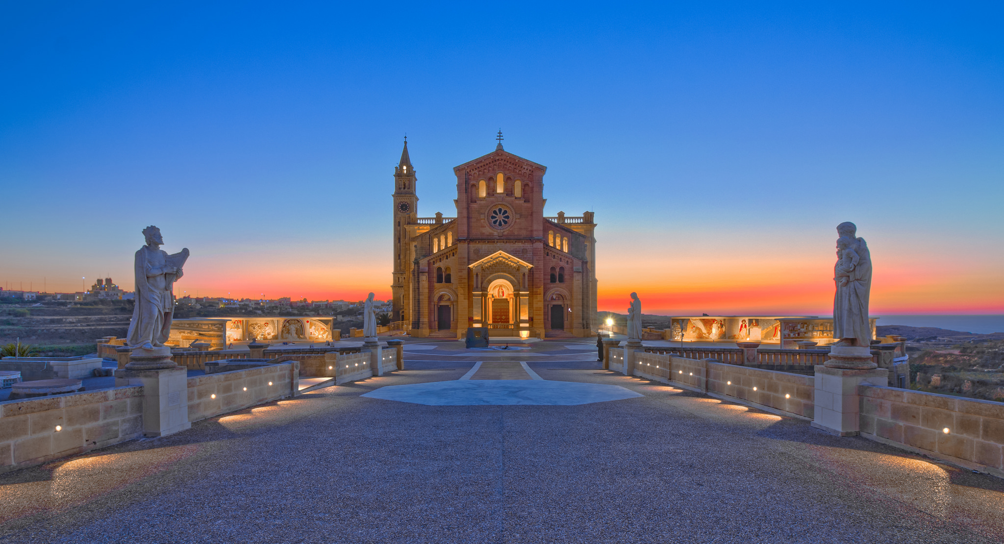 Ta' Pinu Sanctuary at dusk This media is about Maltese cultural property with inventory number 00972.